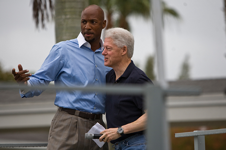 Former President Bill Clinton with Alonzo Mourning at Carrfour Supportive Housing's Verde Gardens community for formerly homeless families during CGI U Day of Service in Miami, Florida.